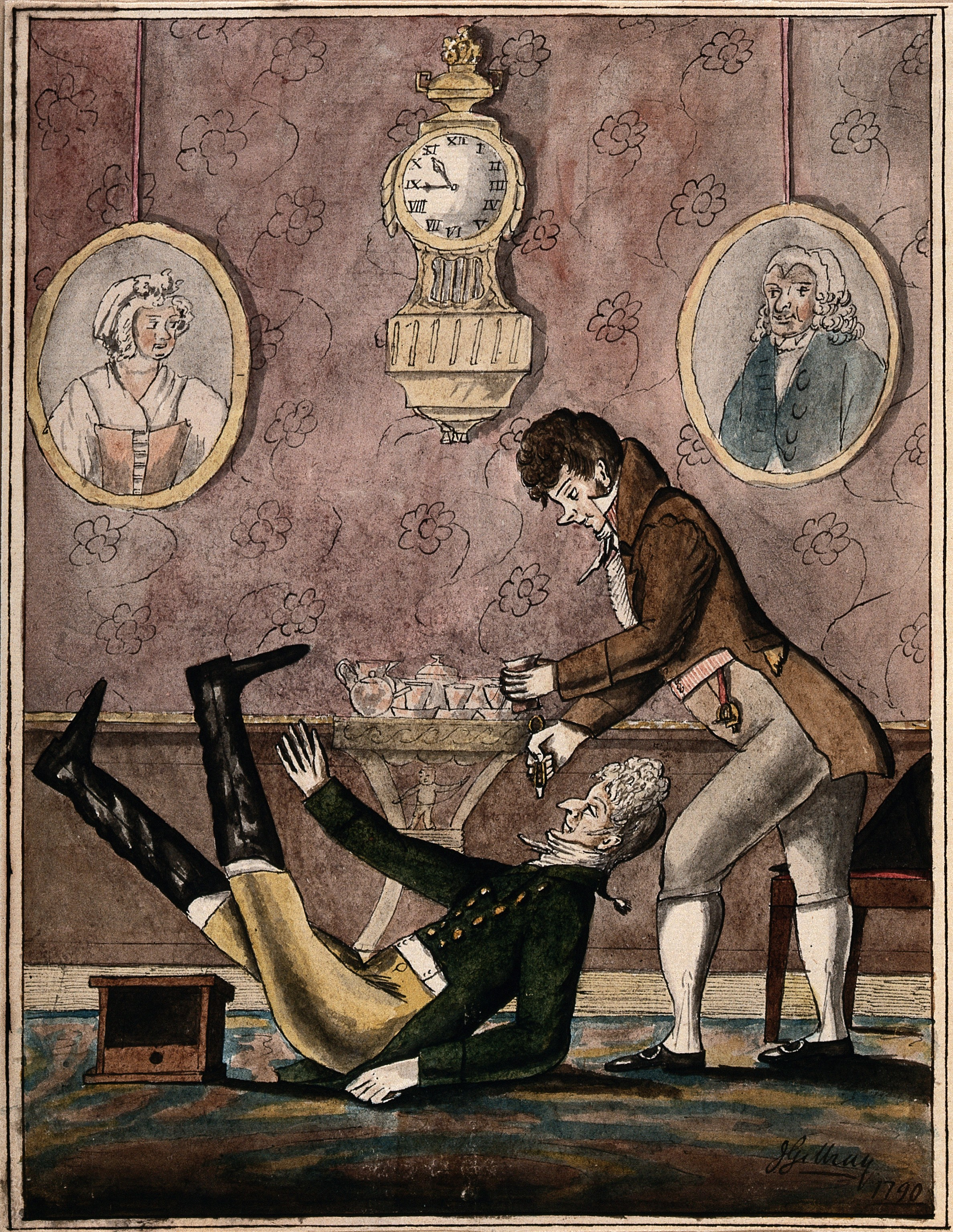 A wealthy patient falling over because of having a tooth extracted with such vigour by a fashionable dentist. Watercolour by J. Gillray, 1790. Iconographic Collections Keywords: James Gillray